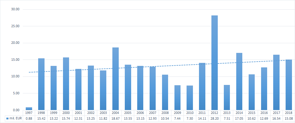 Graphics